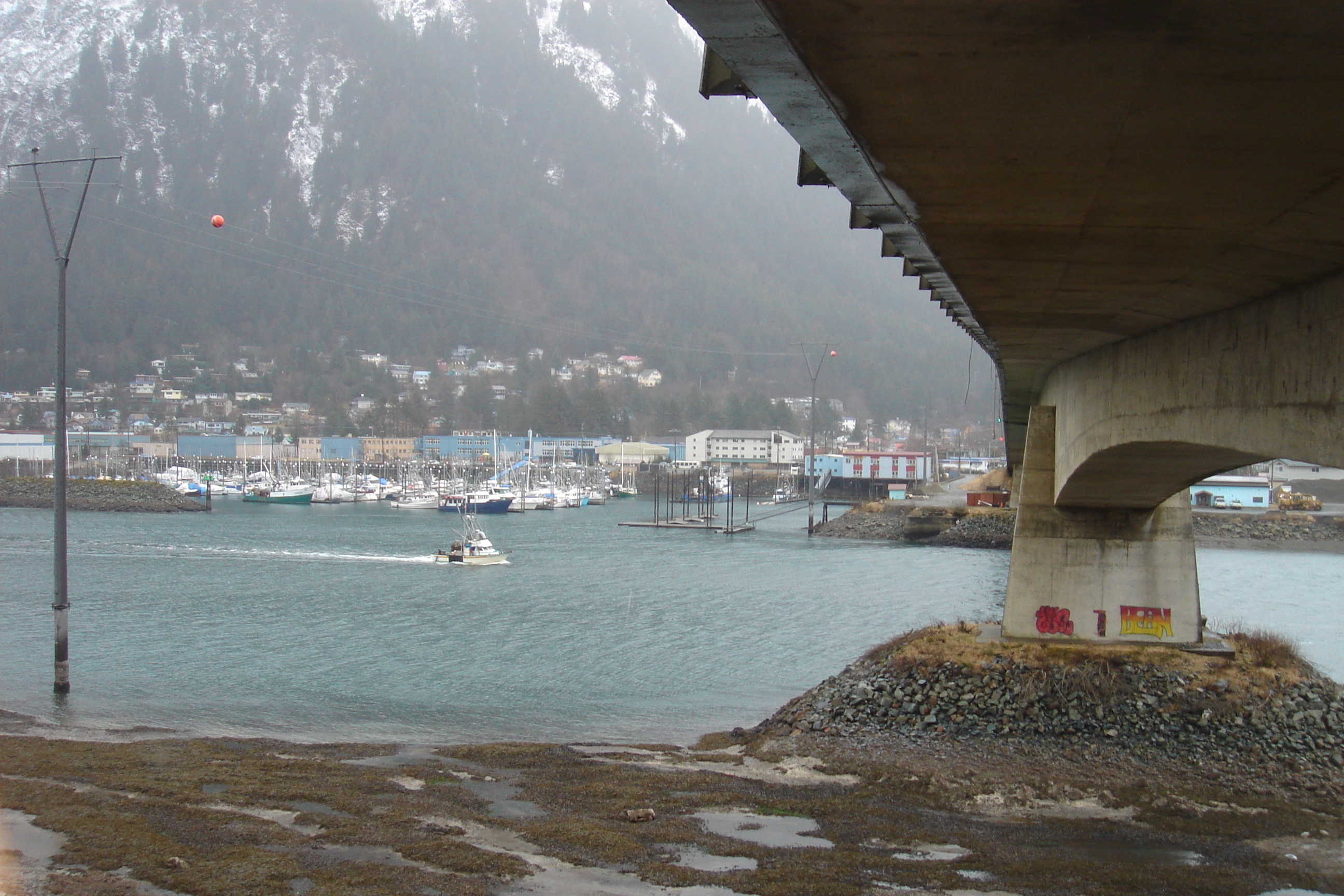 The underside of the Juneau-Douglas Bridge, facing east from Douglas Island, shows the bridges superstructure and support column.